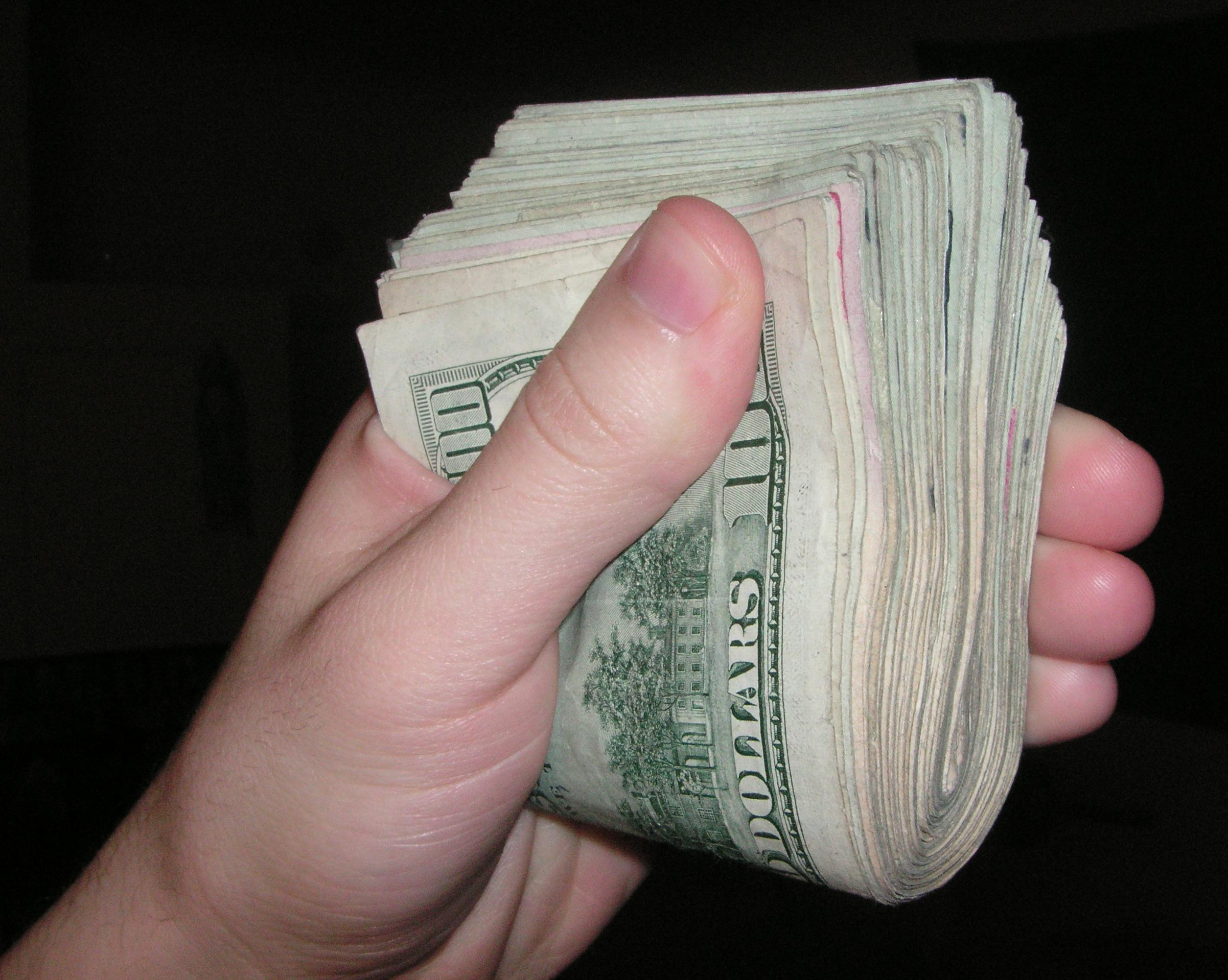 A "stack" of bills with 3 $100 bills on the outside, a $50 bill, and many other $20 bills on the inside. Notice the different colored bills.